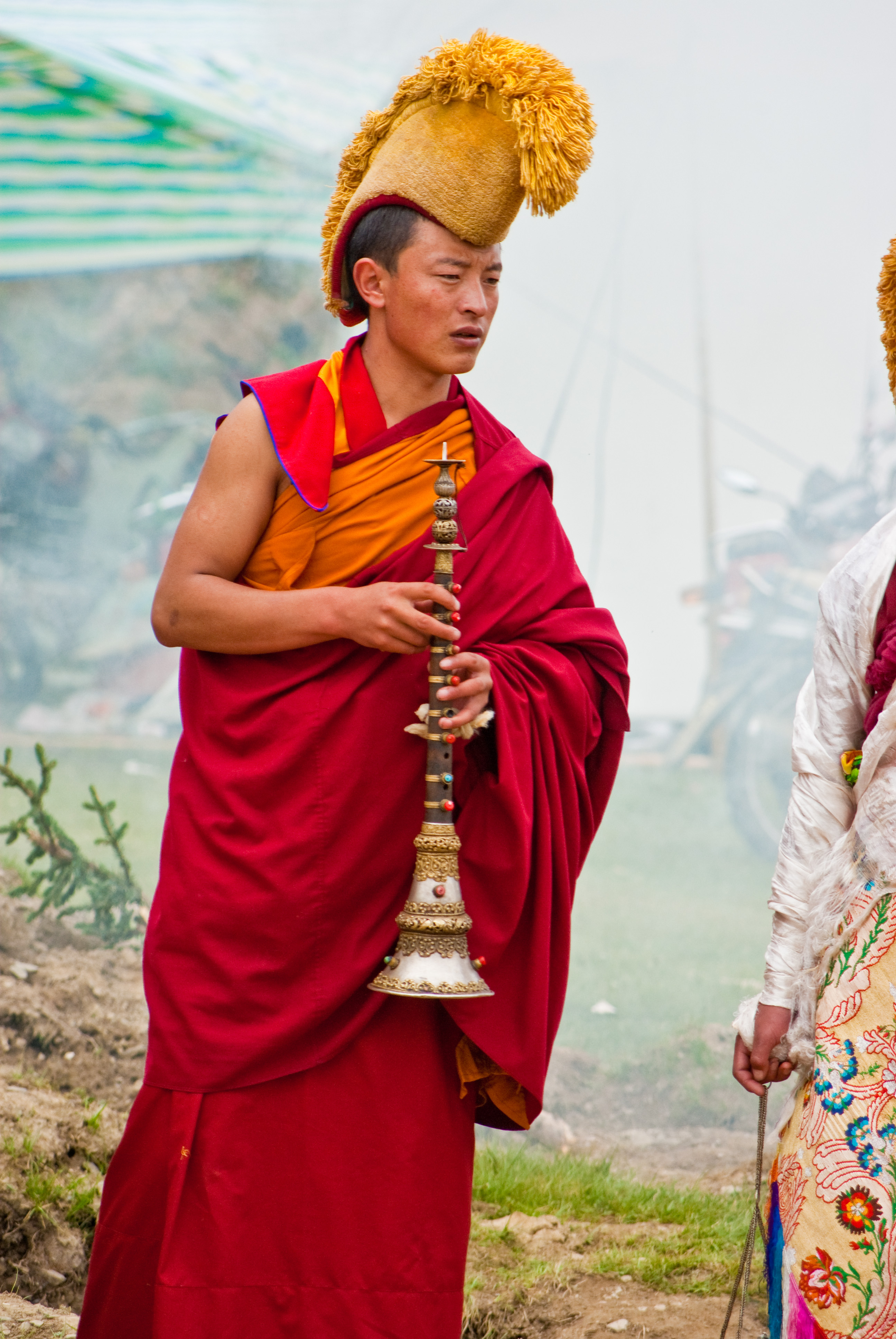 Buddhist monks of Tibet (in the Kham)